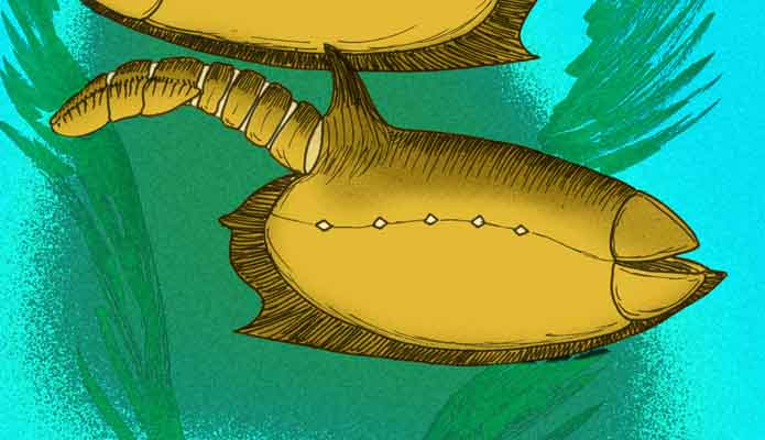 My reconstruction of the Vetulicolian species Vetulicola cuneata. From the Chengjiang Fauna of Early Cambrian China-East Asia; and the United States-North America. Credits (C) Stanton F. Fink